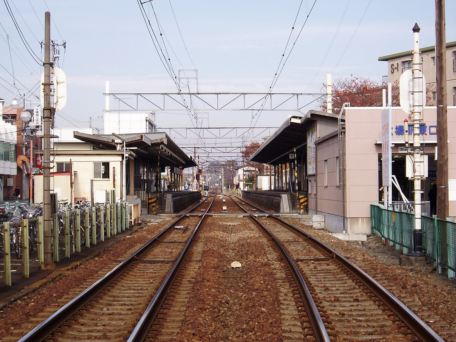 Isuhakone Railway Company, Daiba Sta. 2007.11.26 Photo by Cassiopeia_sweet.